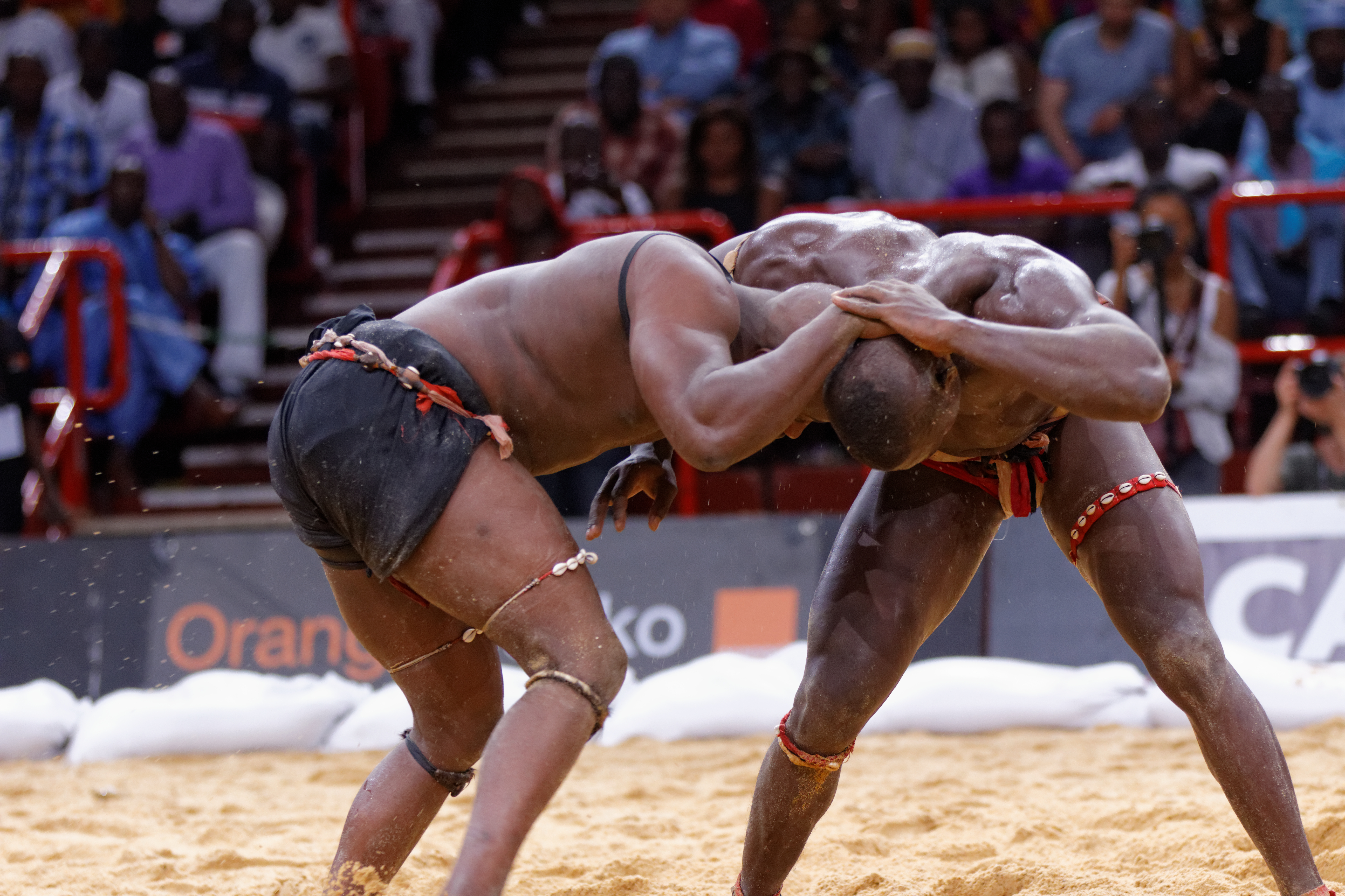 World African Wrestling world tour, Paris Bercy. Mame Balla vs Pape Mor Lô.